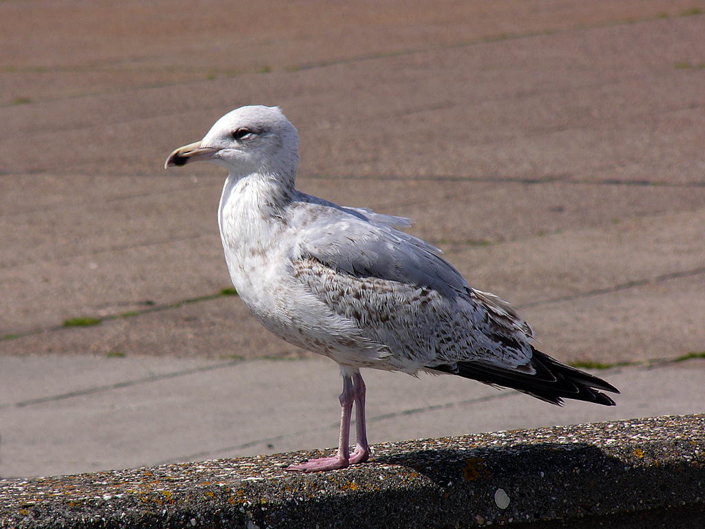 Larus argentatus; 2nd summer Herring Gull